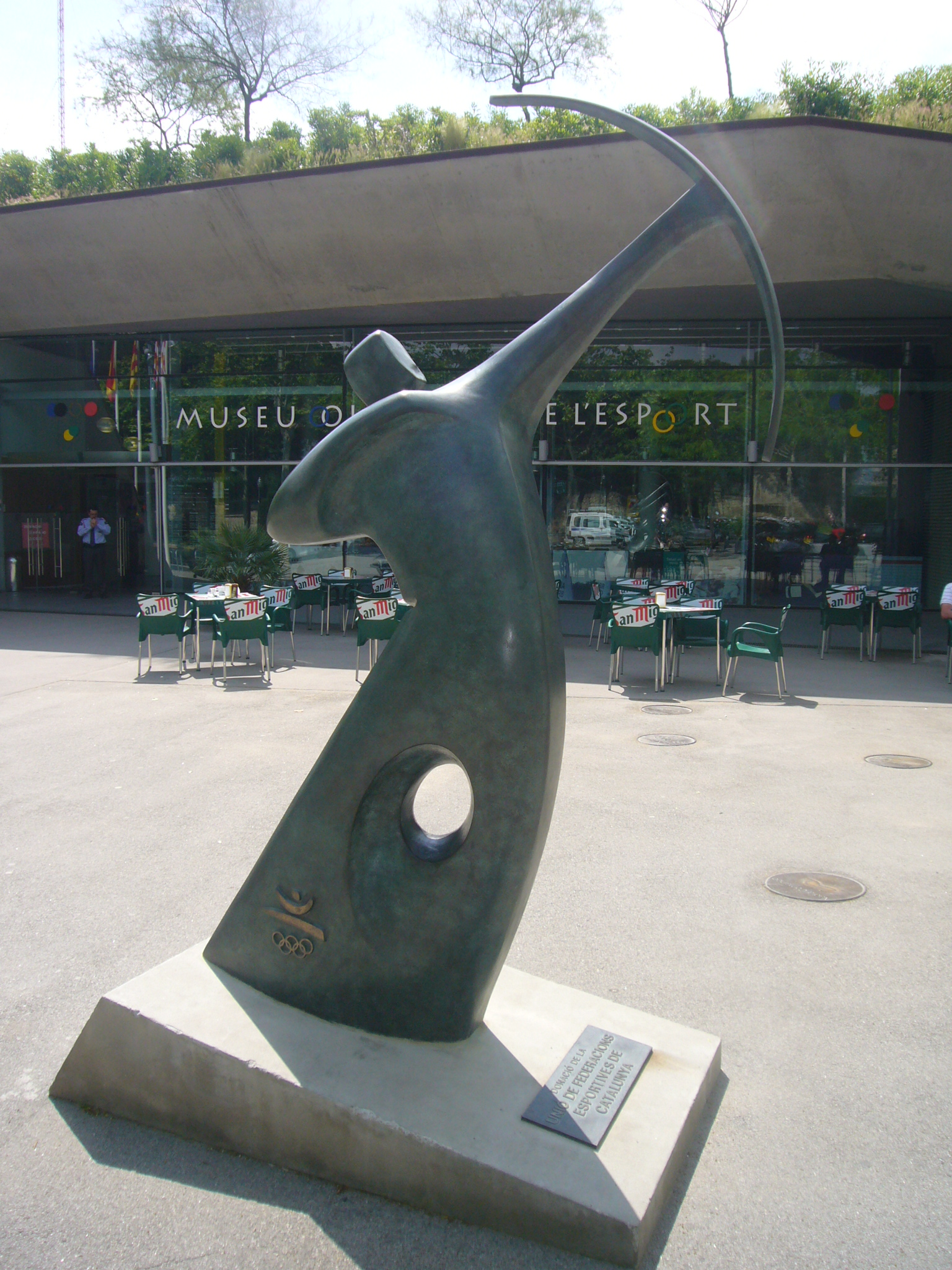 L'Arquer olímpic (Rosa Serra)